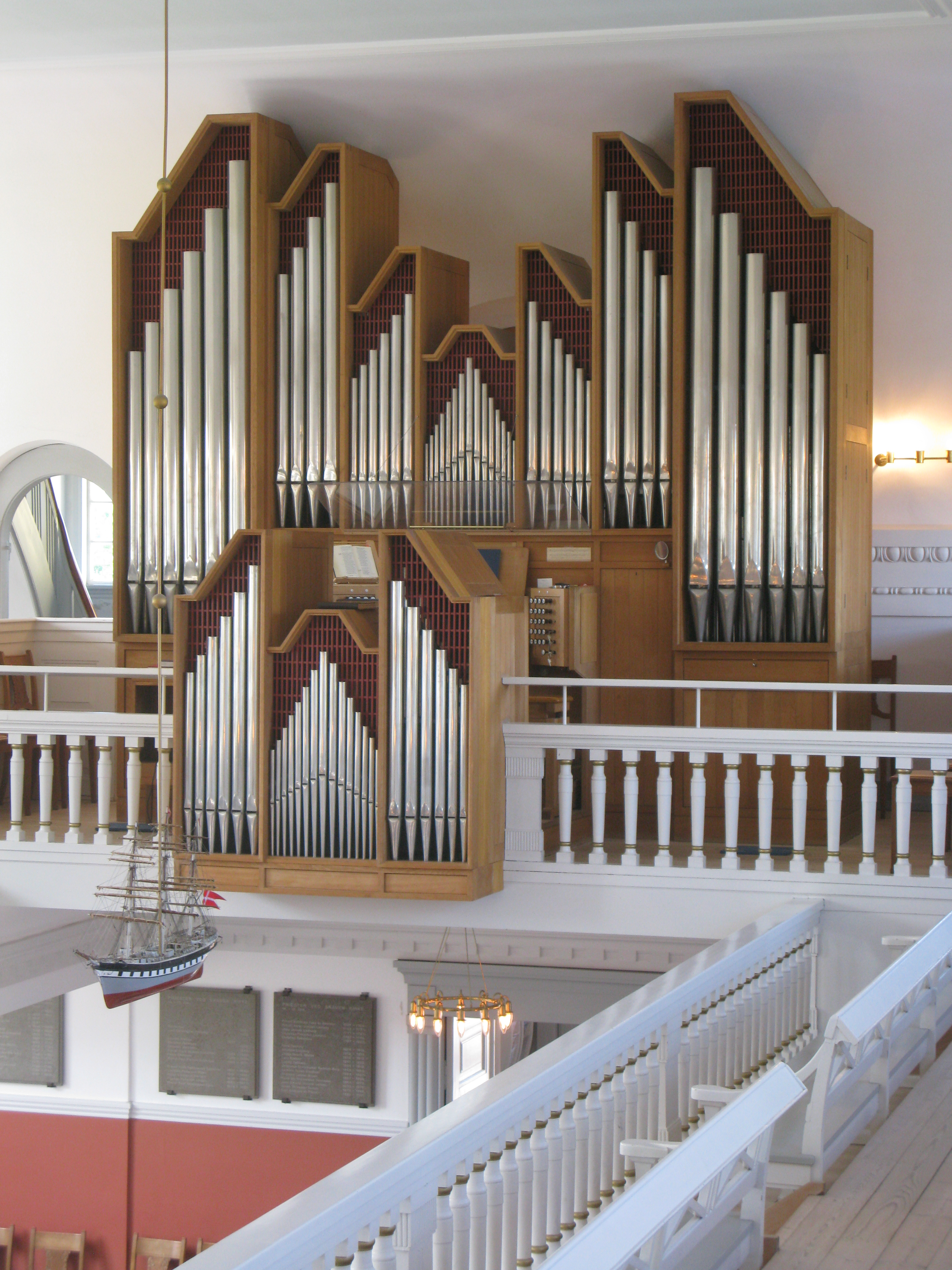 Pipe organ in the Church of Skagen (Northern Denmark), built by Marcussen